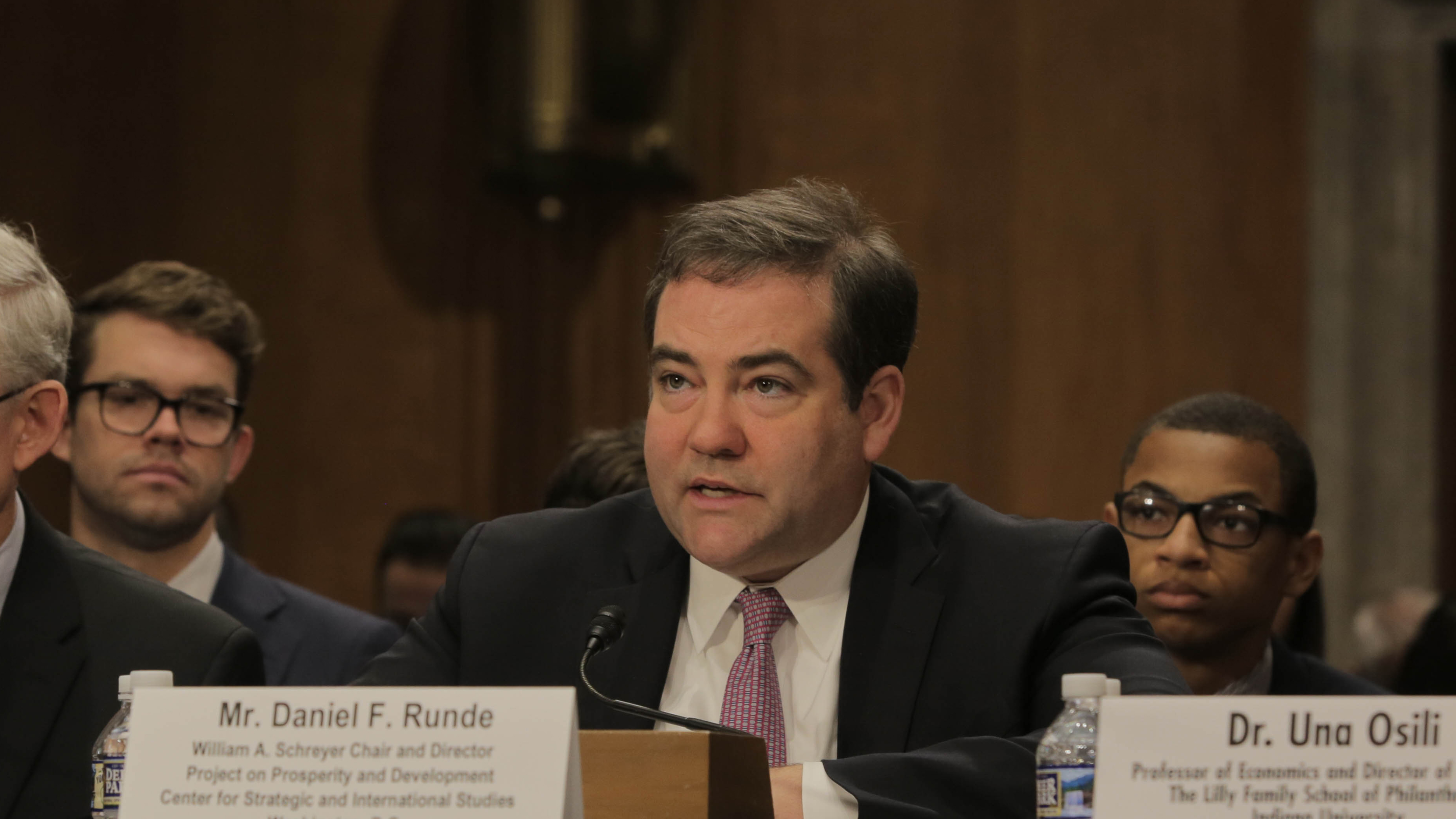 Dan Runde giving his Congressional testimony on Global Philanthropy and Remittances and International Development. Dated: 3rd May, 2017.